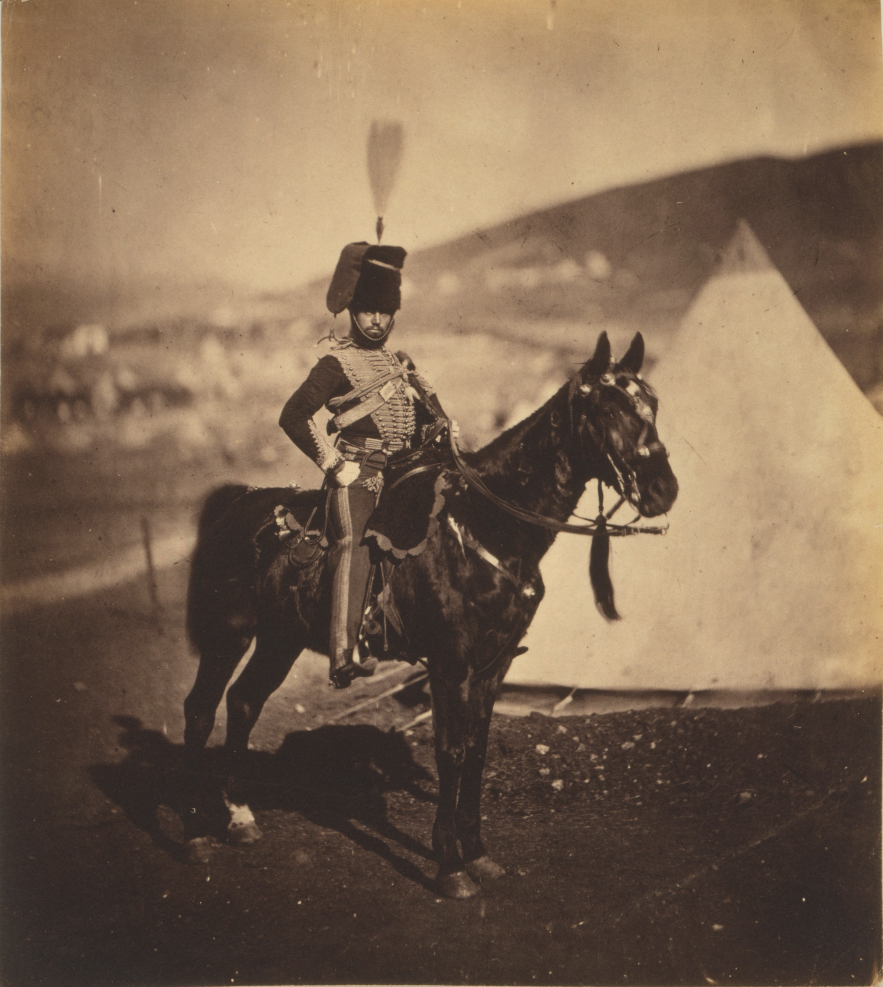 Cornet Henry John Wilkin, full-length portrait, wearing uniform, seated on a horse, a bell tent in the background.